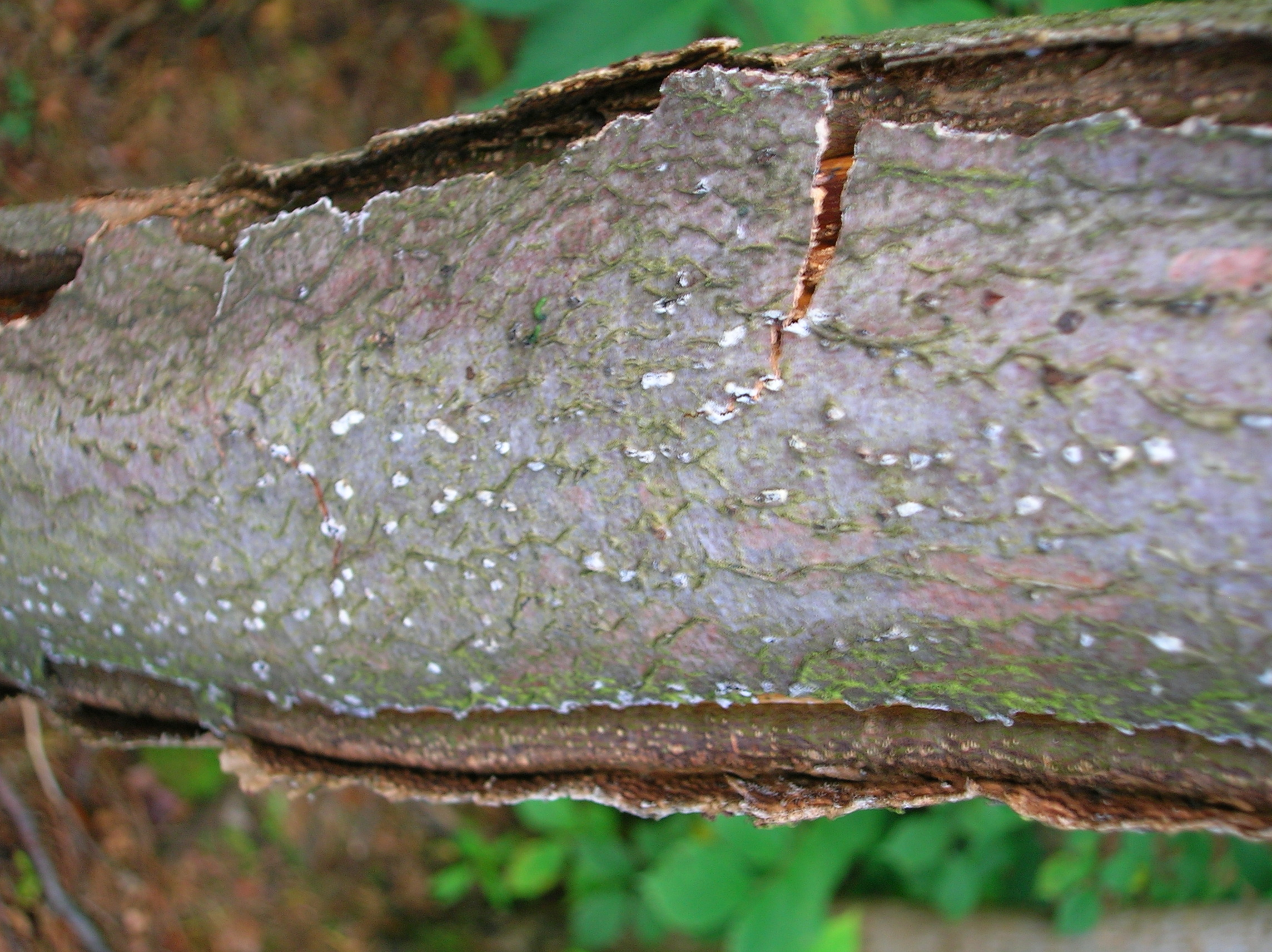 Callus growth on beech (Fagus sylvatica) tree following fire damage, Spiers, Beith, Ayrshire, Scotland.